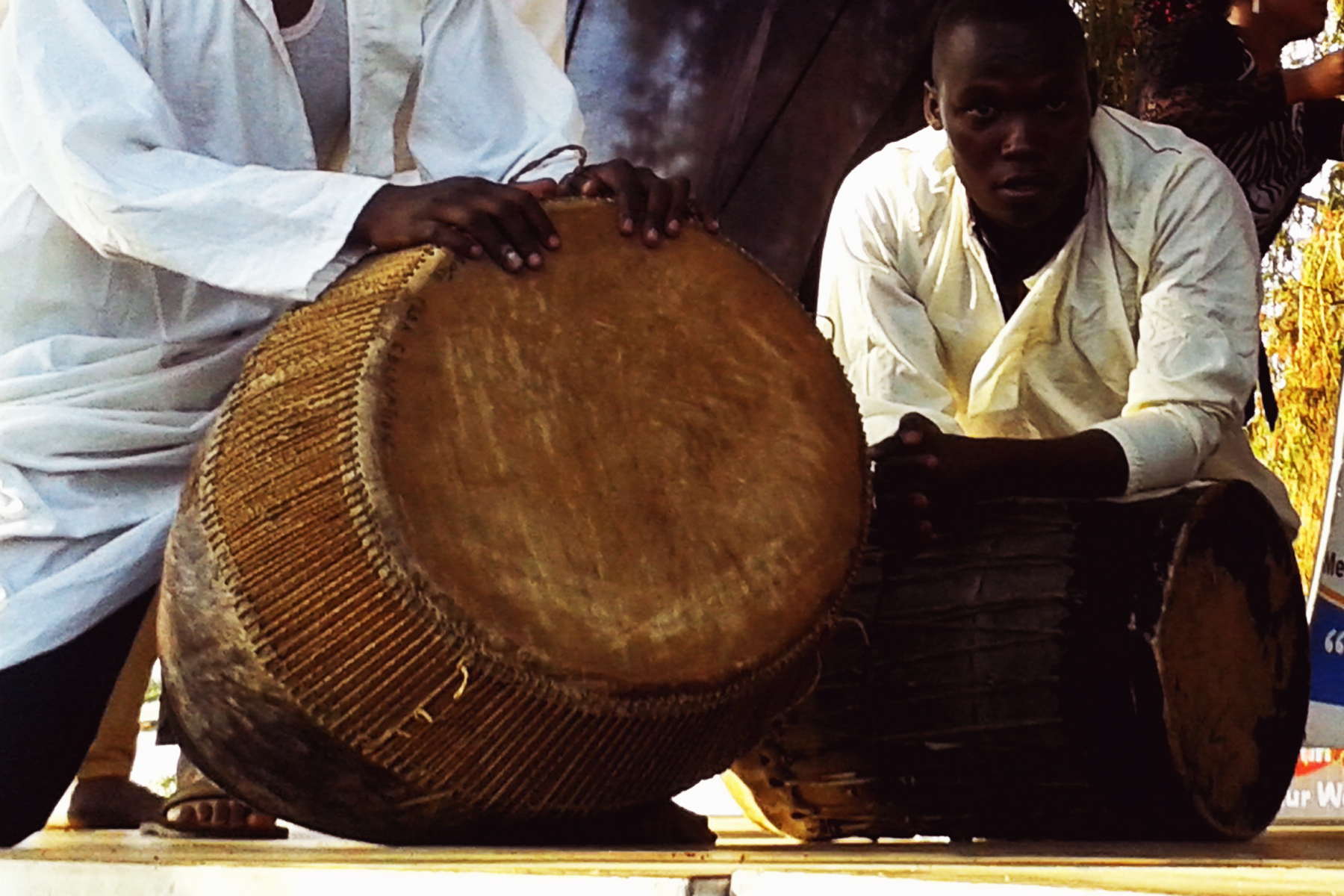 These are the locally made drums used to produce music sound This is an image of music and dance from Uganda